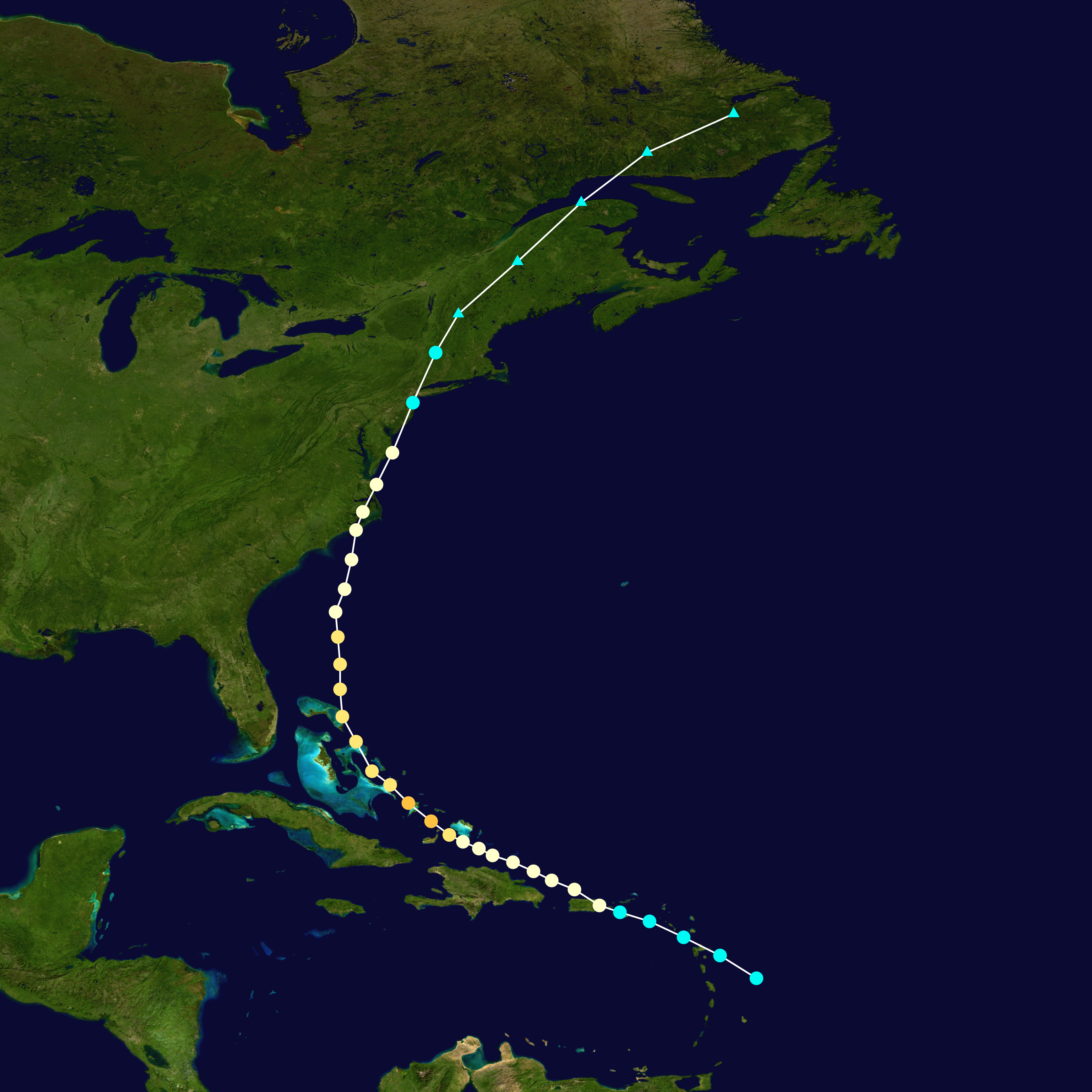 Track map of Hurricane Irene of the 2011 Atlantic hurricane season. The points show the location of the storm at 6-hour intervals. The colour represents the storm's maximum sustained wind speeds as classified in the Saffir–Simpson scale (see below), and the shape of the data points represent the nature of the storm, according to the legend below. Saffir–Simpson scale Tropical depression≤38 mph≤62 km/h Category 3111–129 mph178–208 km/h Tropical storm39–73 mph63–118 km/h Category 4130–156 mph209–251 km/h Category 174–95 mph119–153 km/h Category 5≥157 mph≥252 km/h Category 296–110 mph154–177 km/h Unknown Storm type Tropical cyclone Subtropical cyclone Extratropical cyclone / Remnant low / Tropical disturbance / Monsoon depression